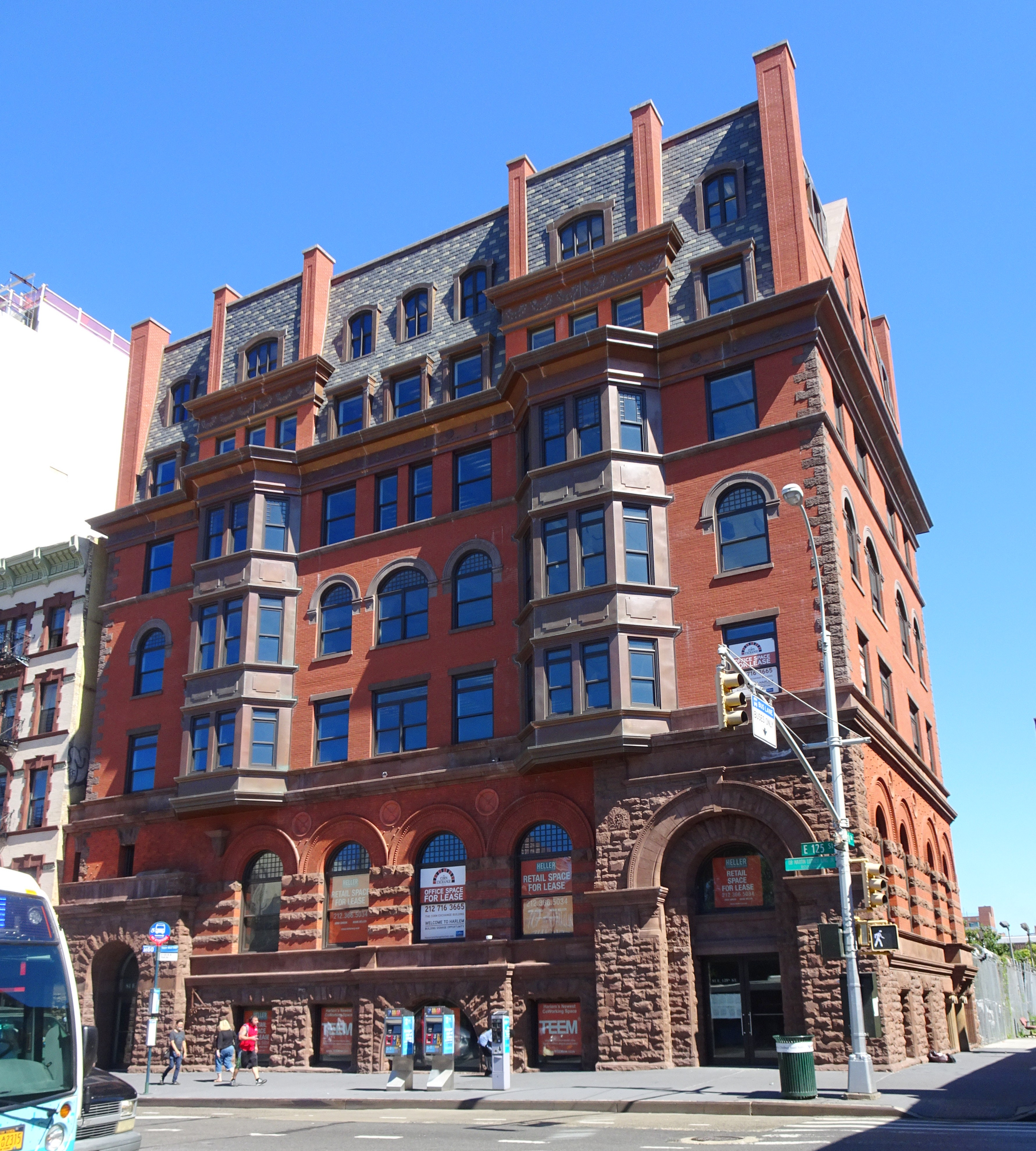 Looking north at rebuilt Mount Morris Bank on a sunny late morning